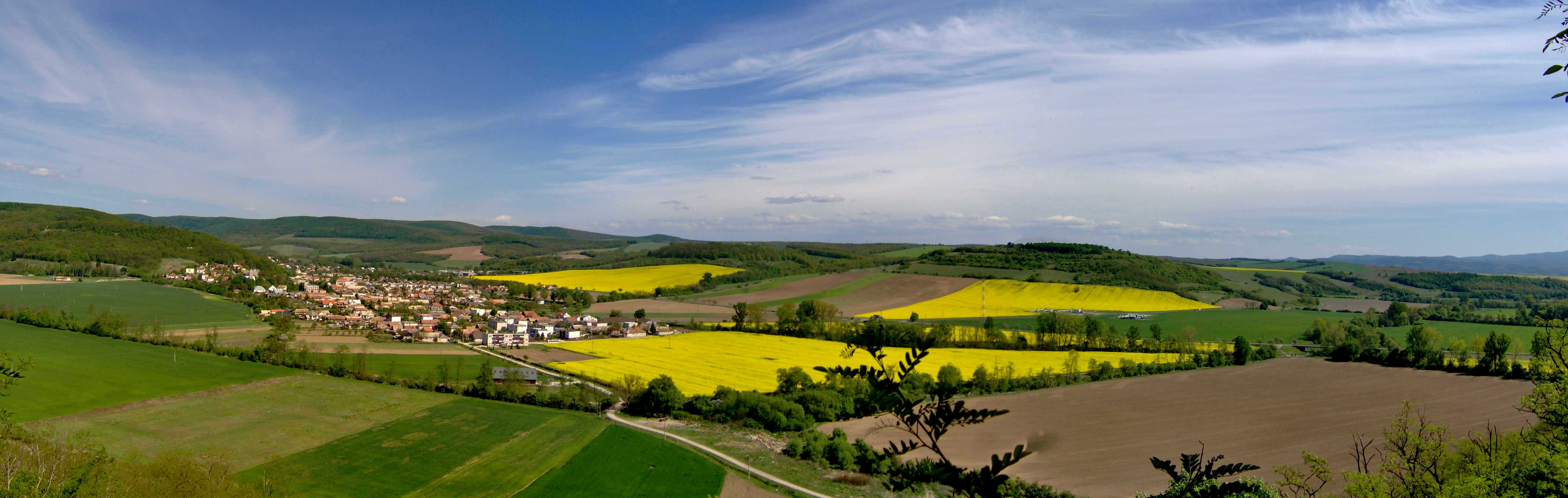 Plášťovce, Slovakia, Rapeseed fields